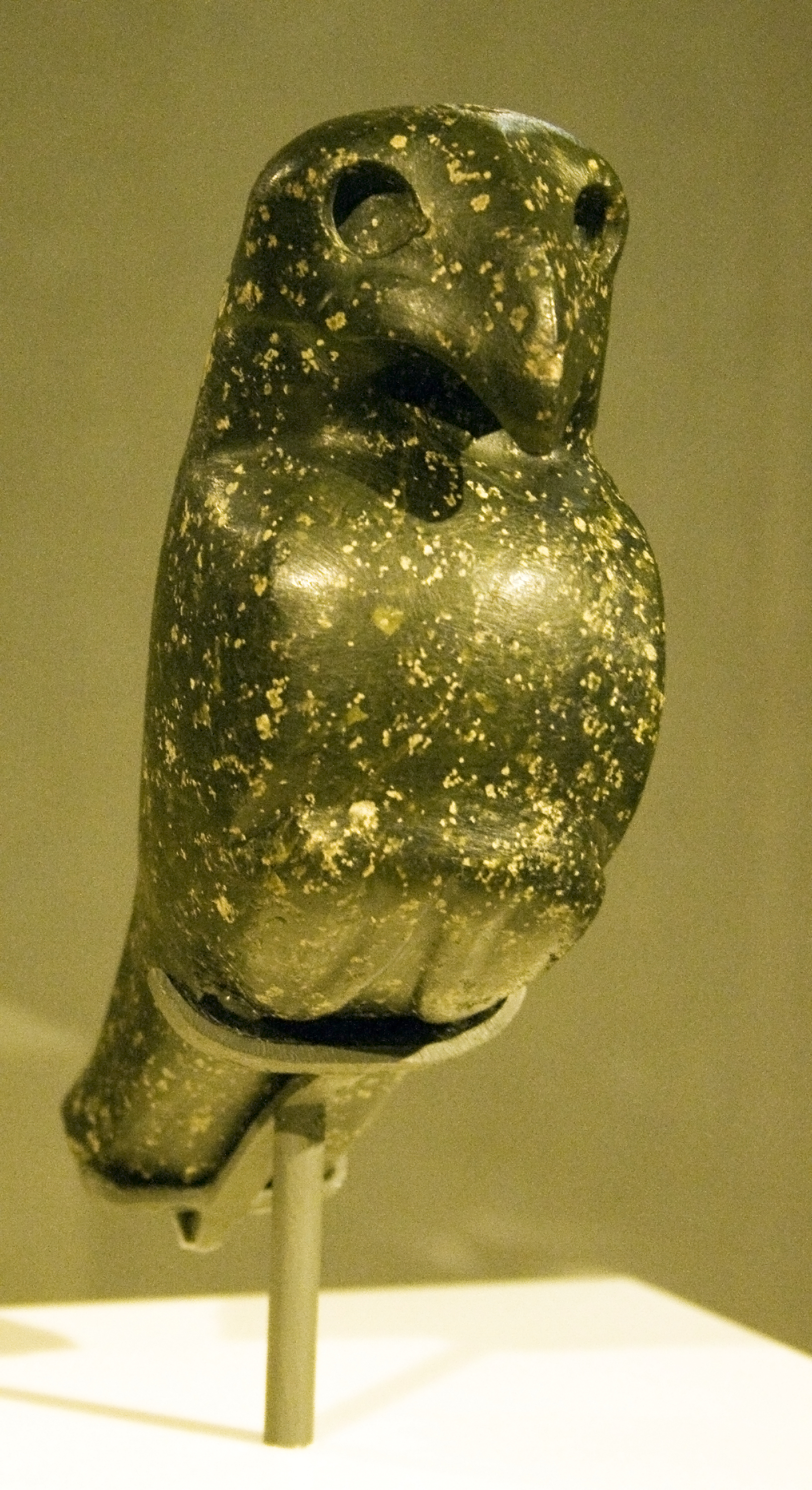 Statuette of a perched falcon